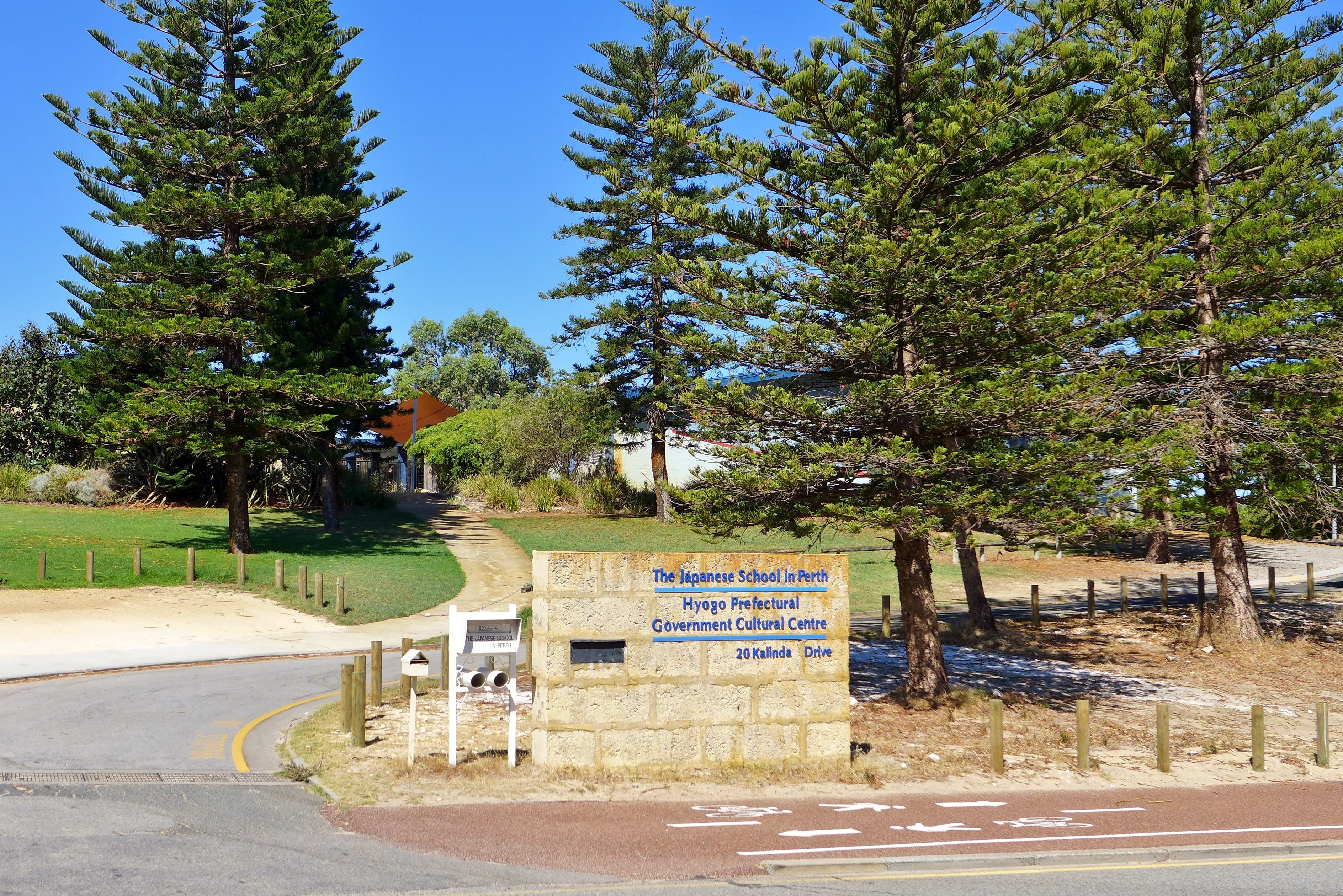 View of the entrance to The Japanese School in Perth and the Hyogo Prefectural Government Cultural Centre, 20 Kalinda Drive, City Beach, Western Australia.